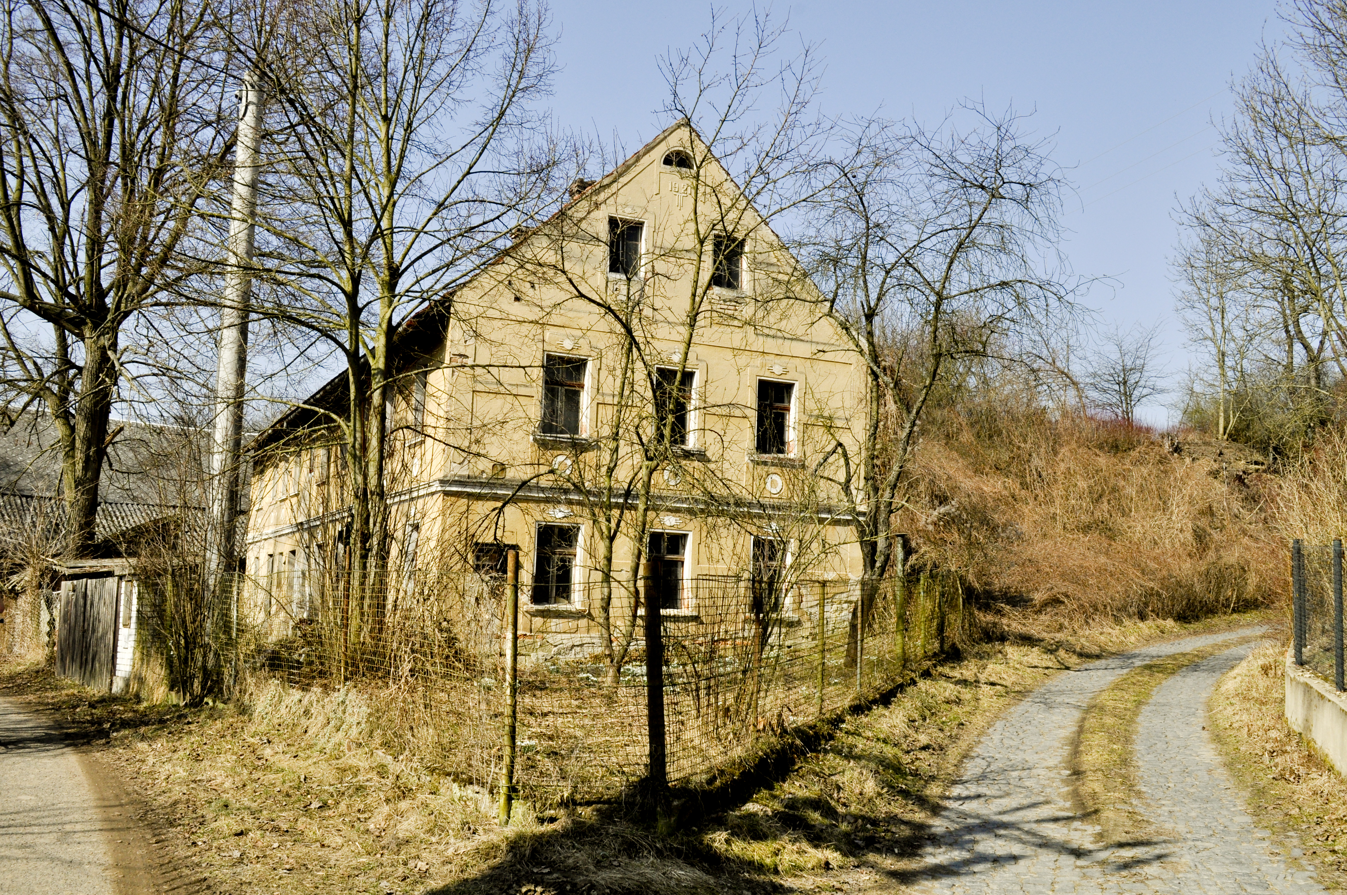 House in Mošnice, Ústí nad Labem region